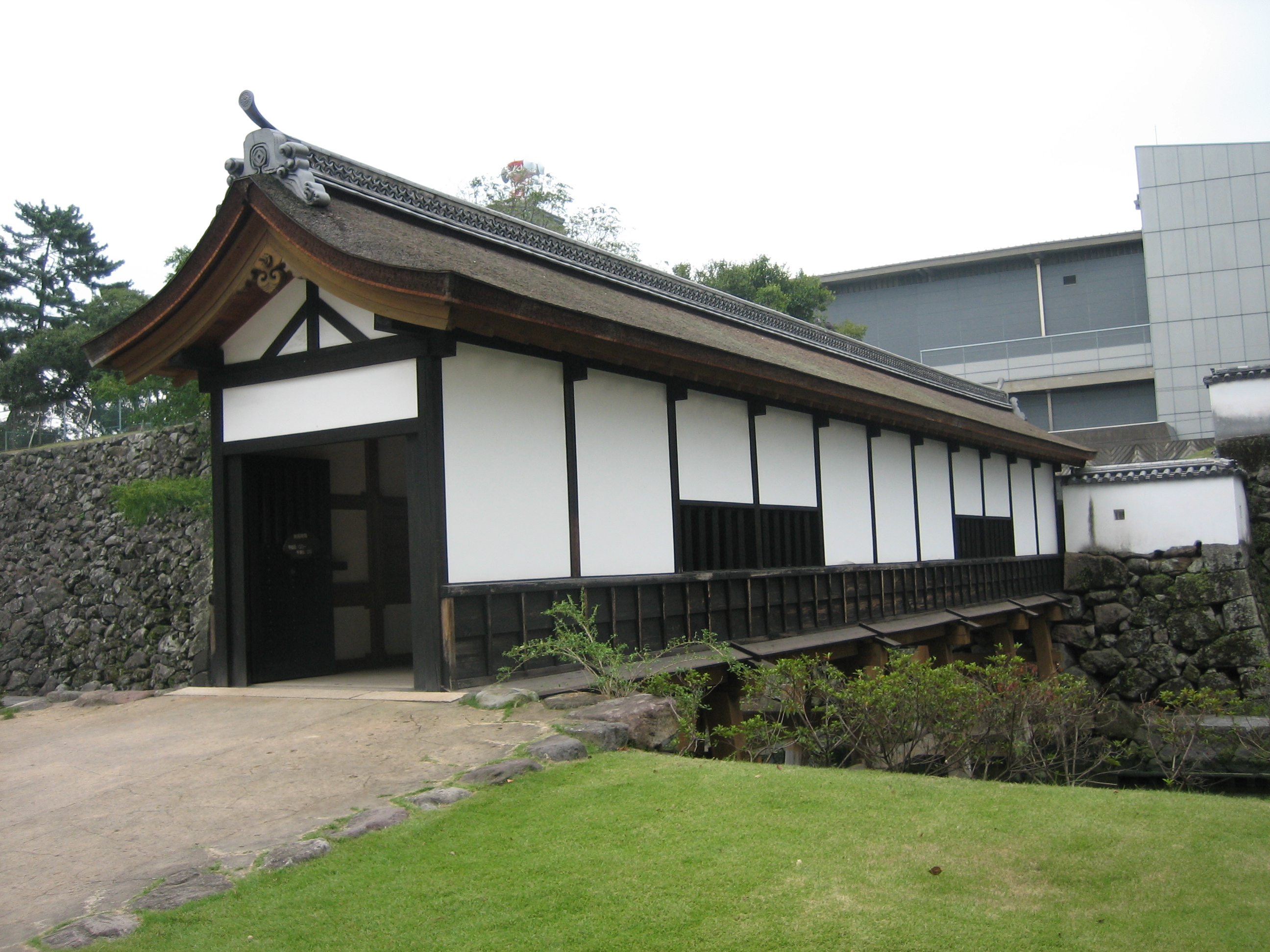 photo of Funai Castle Rōka-bridge (Rōkabashi, rebuilding in 1996)